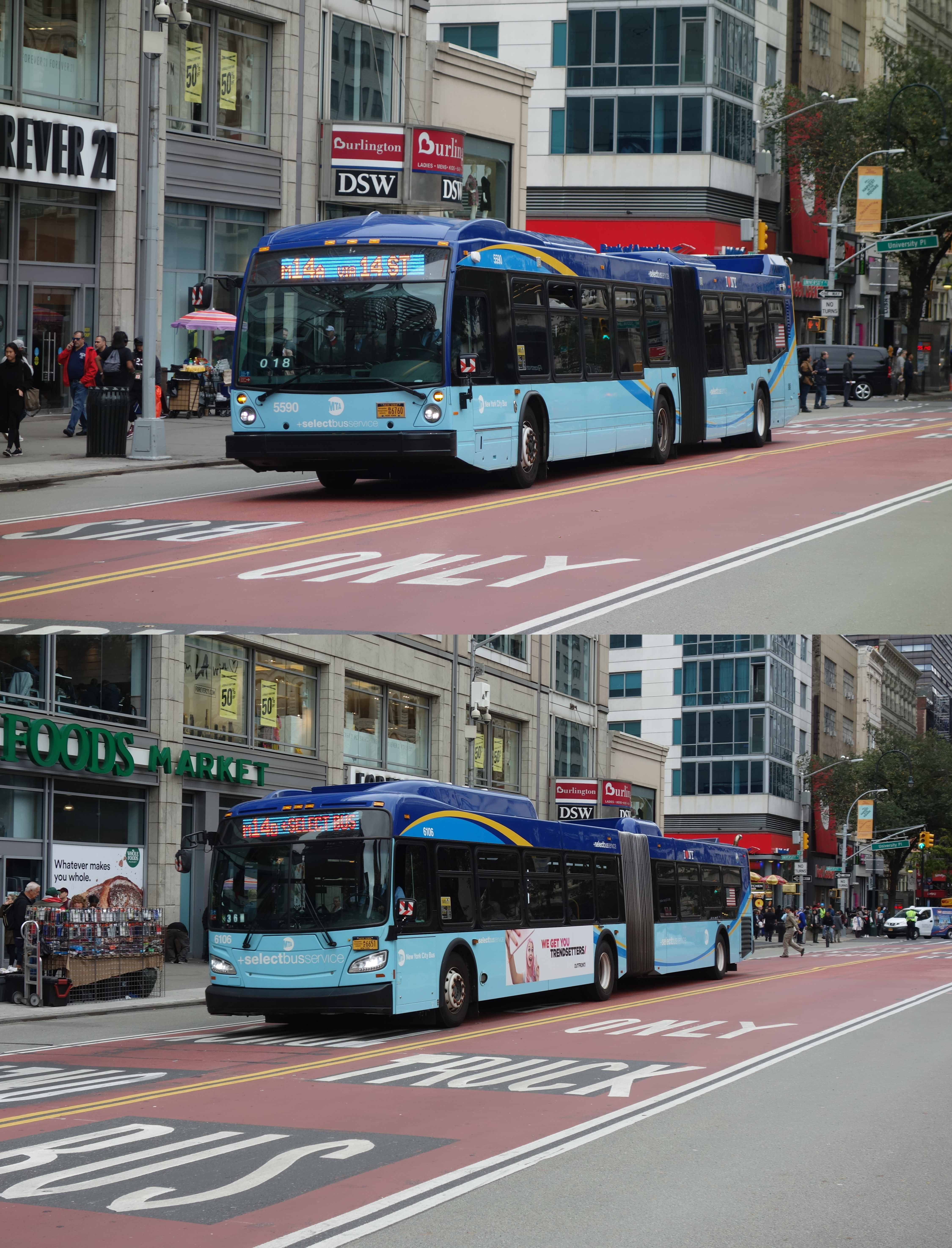 A Lower East Side–Grand Street-bound M14A SBS bus (top) and a Lower East Side–Delancey Street-bound M14D SBS bus (bottom) pulling up to the light at 14th Street and Broadway in Union Square, Manhattan. The buses are traveling through the full busway along 14th Street implemented earlier this month.